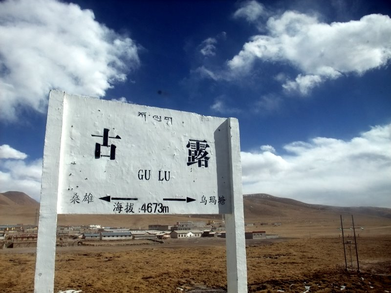 gu lu station